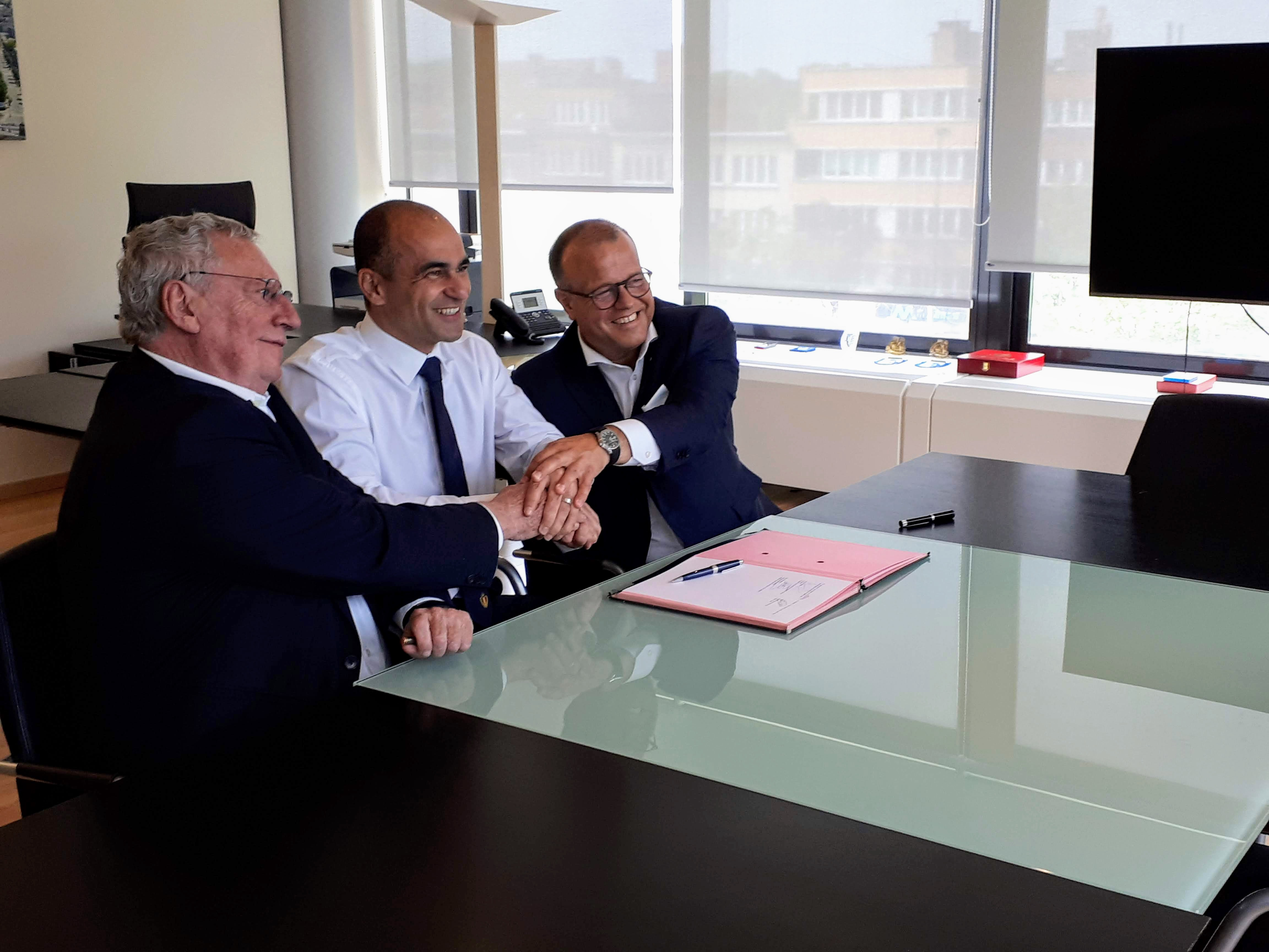 In 2018, Verhaeghe and Linard extended the contract of national coach Roberto Martínez